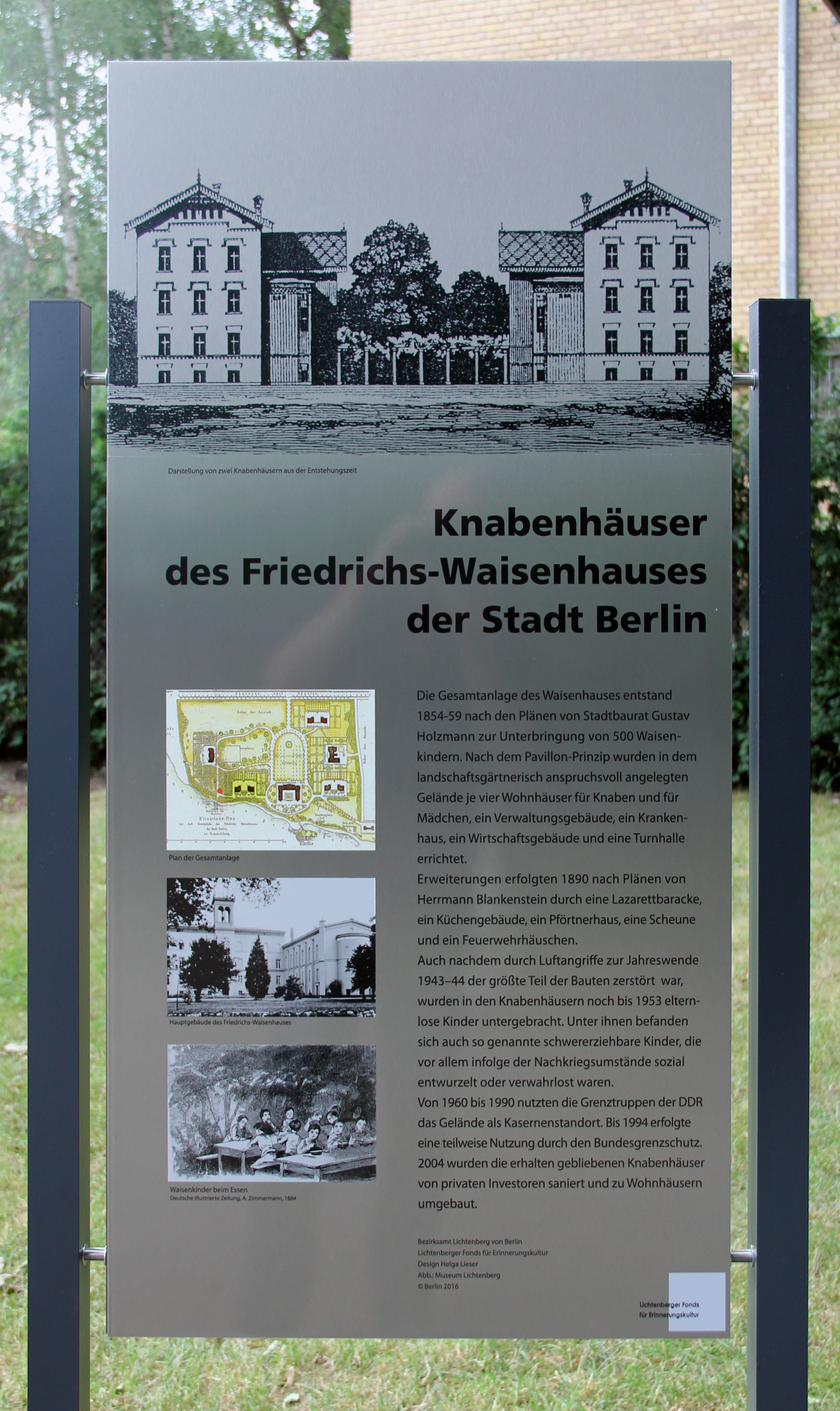 Memorial plaque, Knabenhäuser des Friedrichs-Waisenhaus Rummelsburg, Bolleufer, Berlin-Rummelsburg, Deutschland